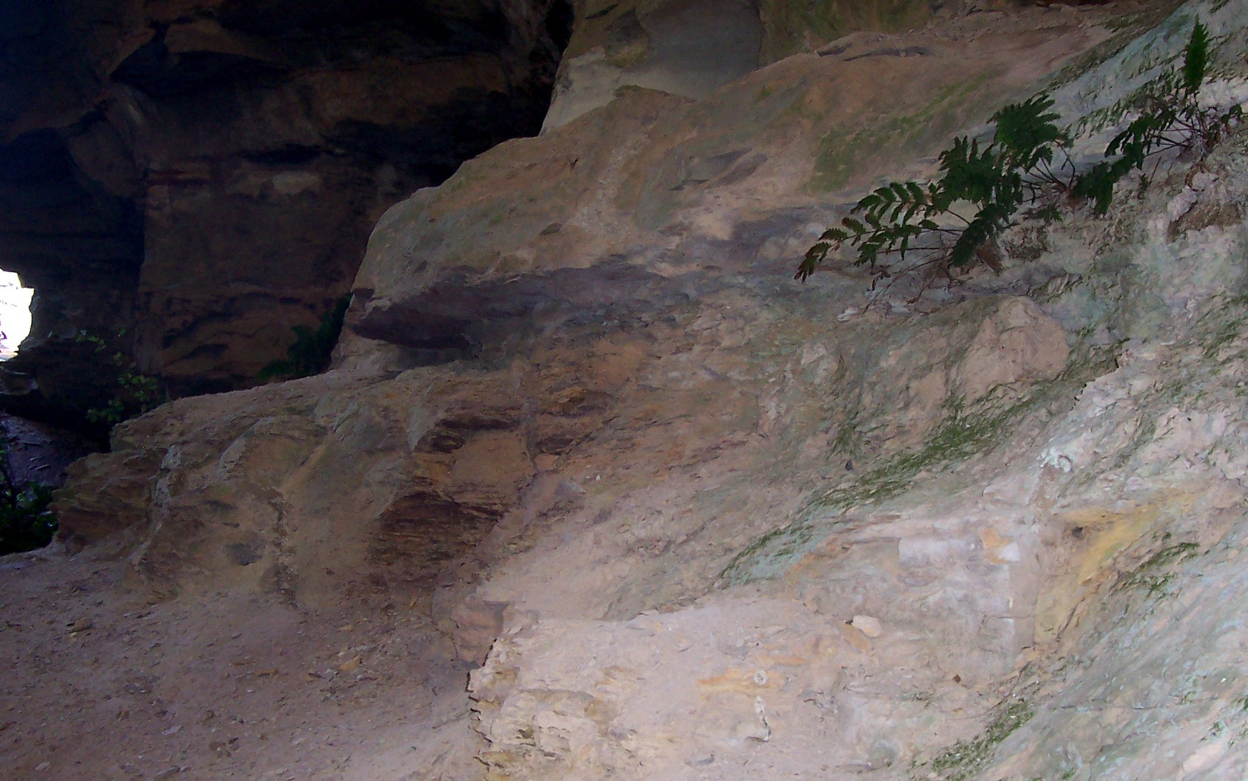 likely to be Mount York Claystone, slot canyon, Katoomba. NSW, Australia